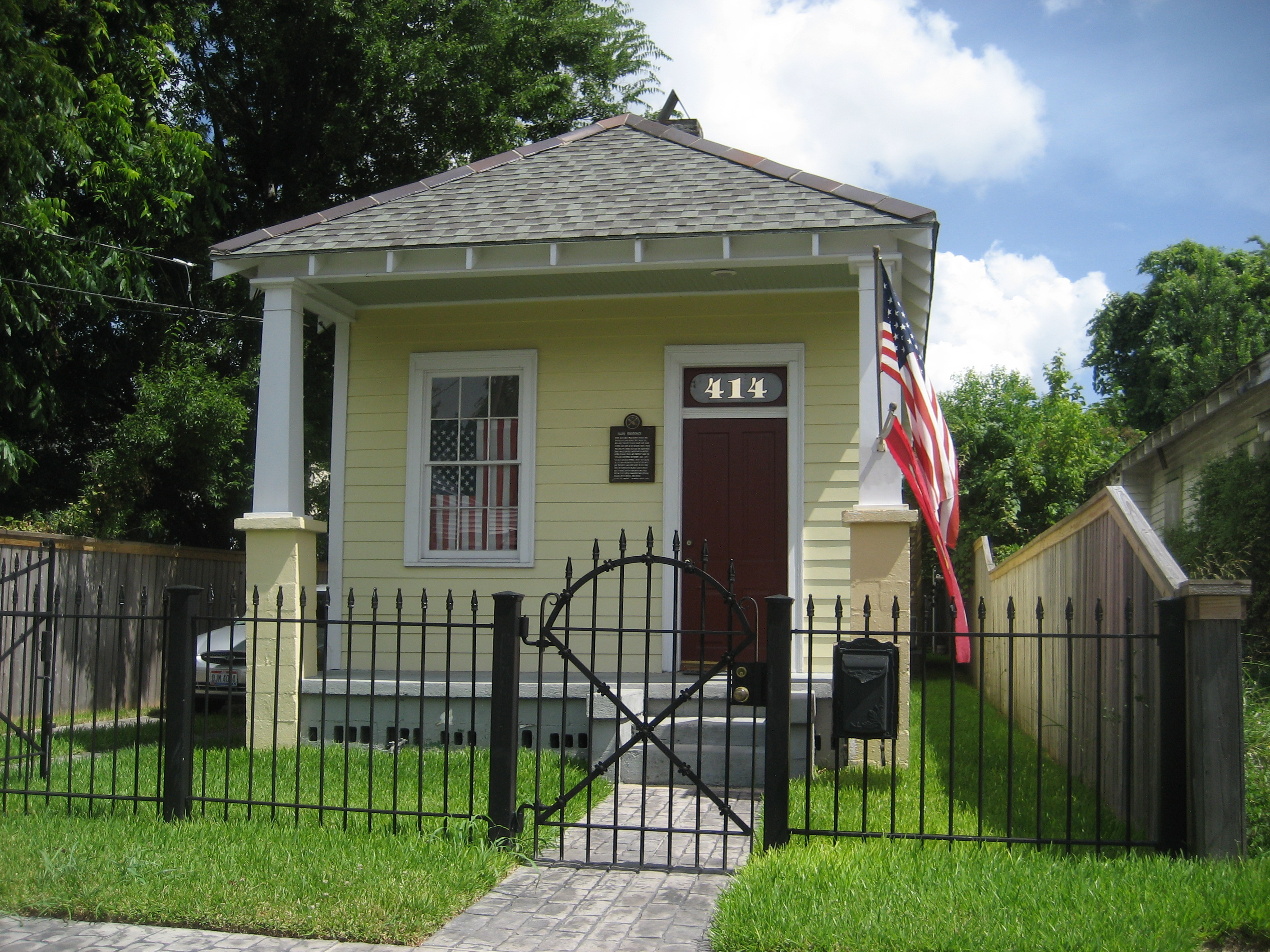 New Orleans: House of jazz great Henry "Red" Allen, Algiers Point neighborhood